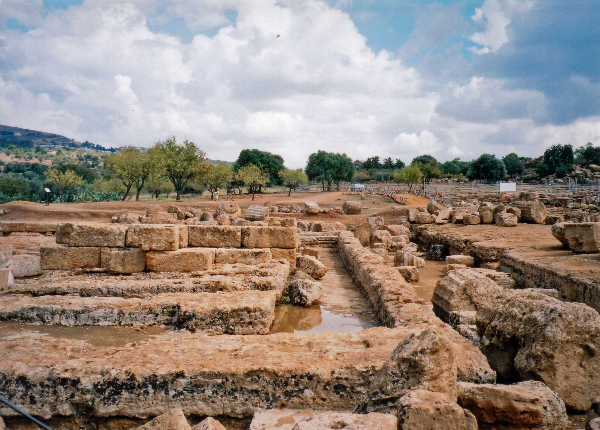 Agrigento, The Temple of Gemini, formerly known as the Temple of Castor and Pollux.